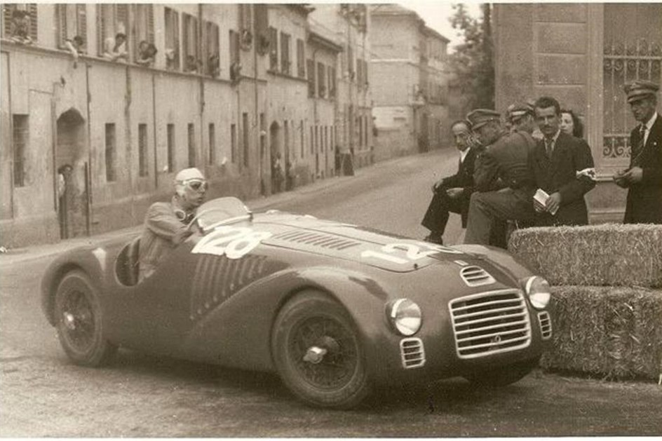 1947 Ferrari 125 S s/n 01C (entry #128) at perhaps its first race at Circuito di Piacenza on May 11, 1947. Driver Franco Cortese did not finish due to mechanical problems.[1]. This particular car is one of the first Ferraris built.